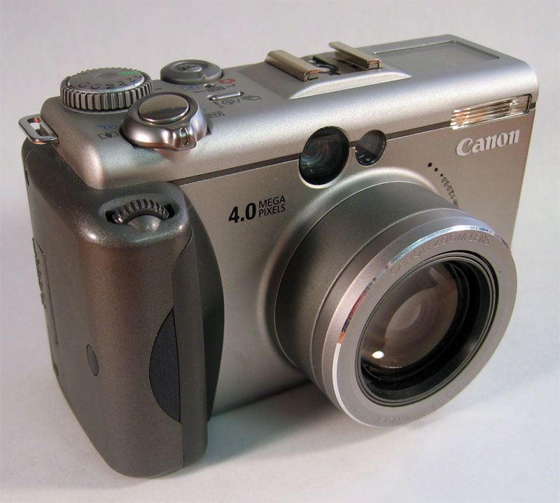 Front view of a Canon PowerShow G3 digital camera.